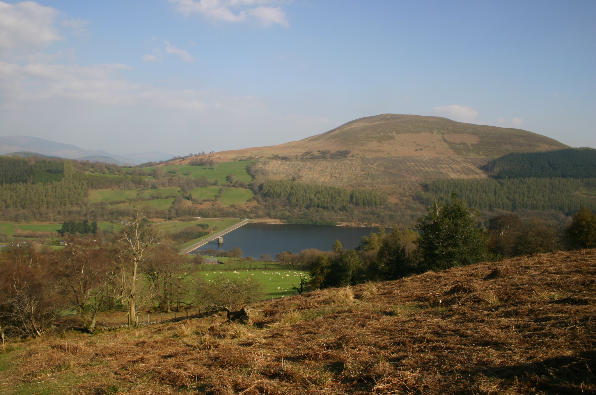 Path coming down from Twyn-Du Path coming down from Twyn-Du, with in the distance Talybont Reservoir and the peak of Tor y Foel.